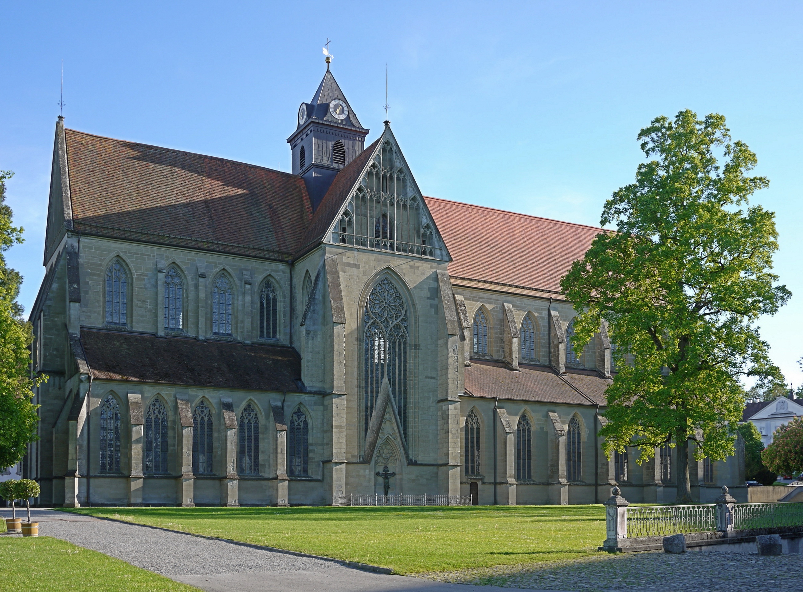 Monastery of Salem (Germany)